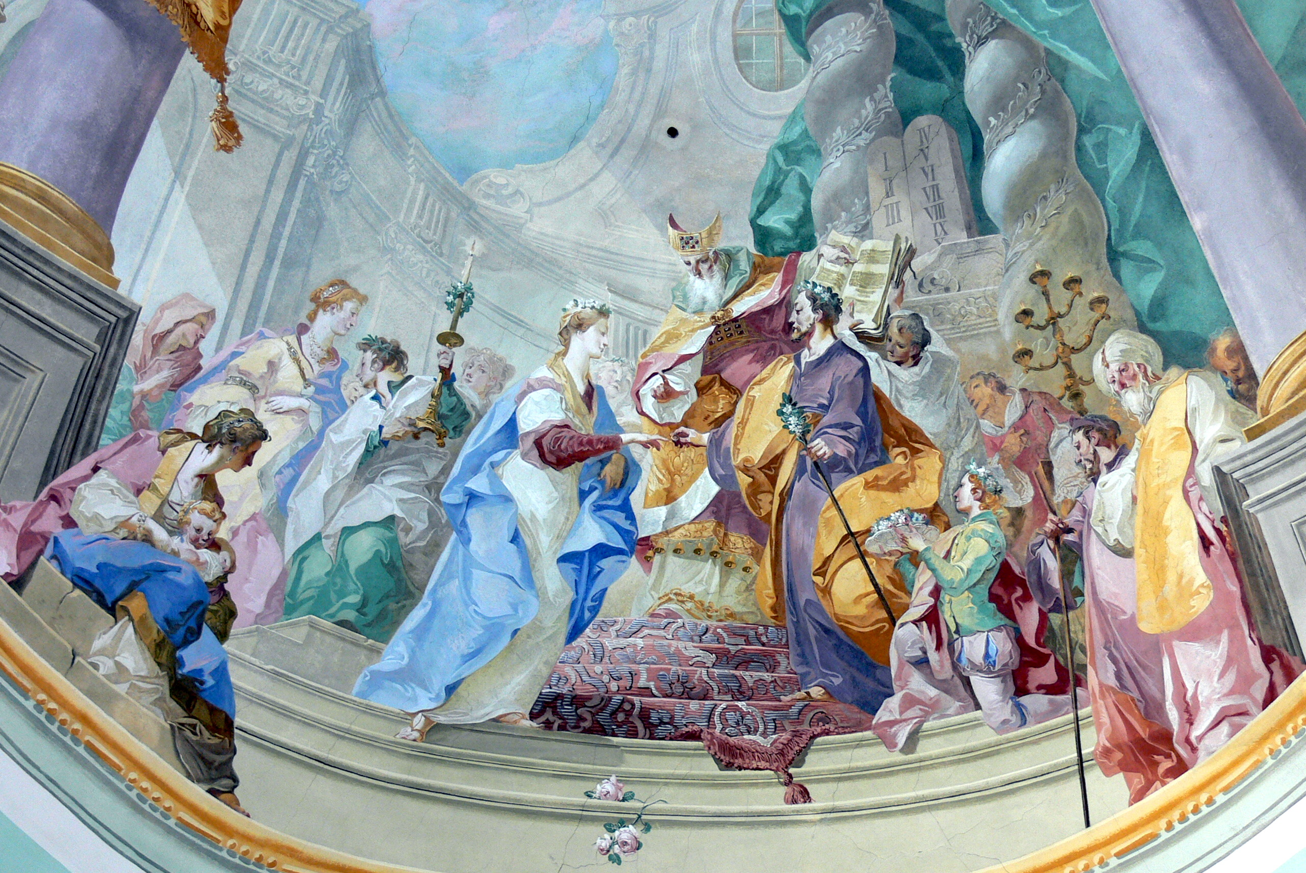 Basilica of Kleinmariazell ( Lower Austria ). Frescos at the ceiling ( 1765 ) by Johann Baptist Wenzel Bergl: Marriage of Virgin Mary - detail.